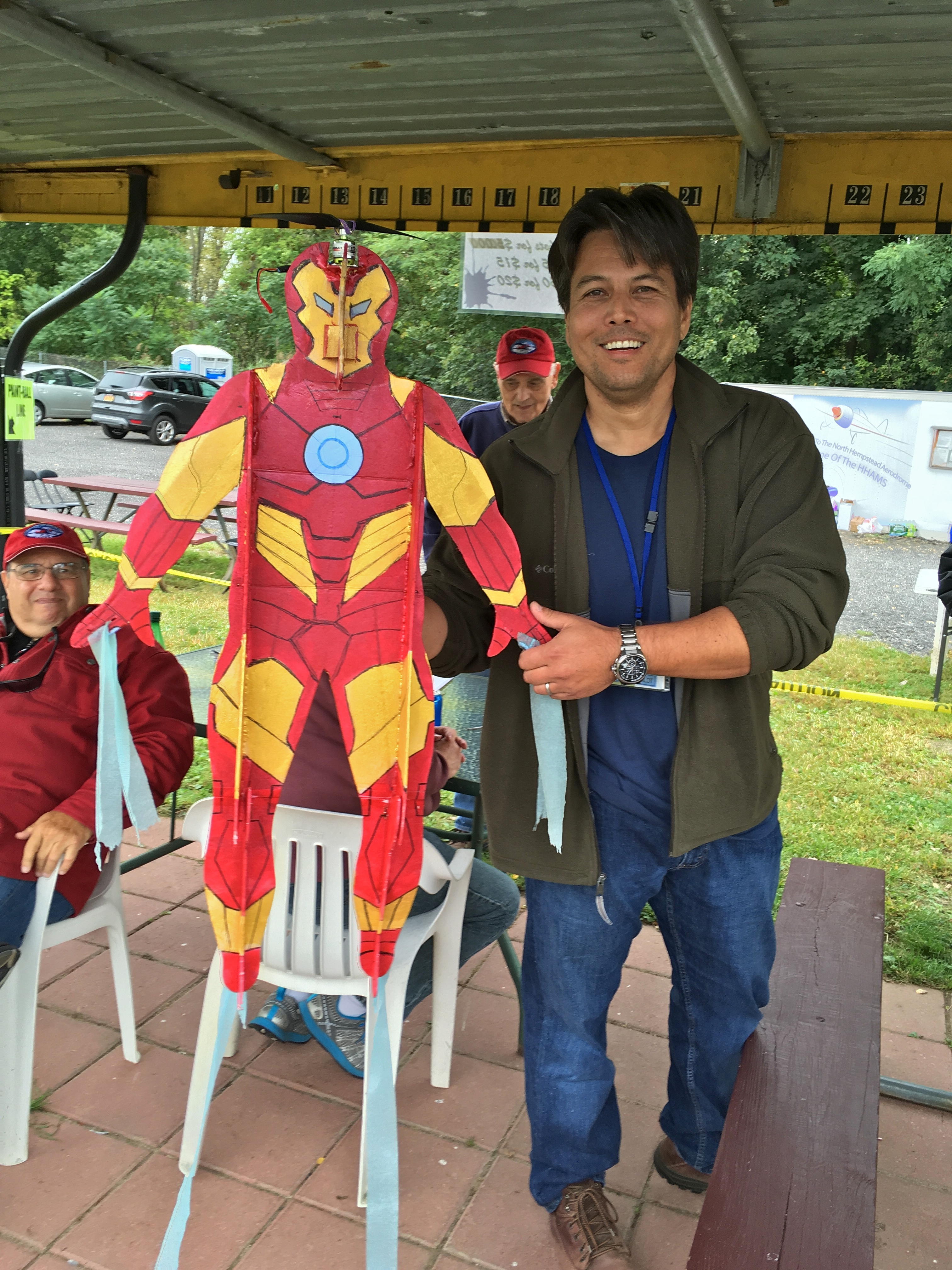 A scratch-built Radio-controlled aircraft in the form of Iron Man at the HHAMS Aerodrome.